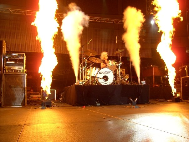 Jen Ledger, drummer for the band Skillet